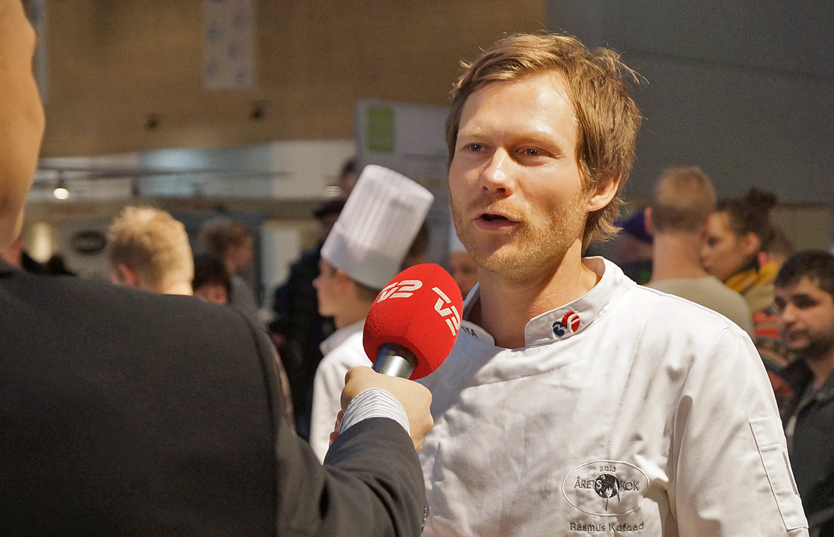 Rasmus Kofoed Danish chef and restaurateur at "Copenhagen Food Fair"